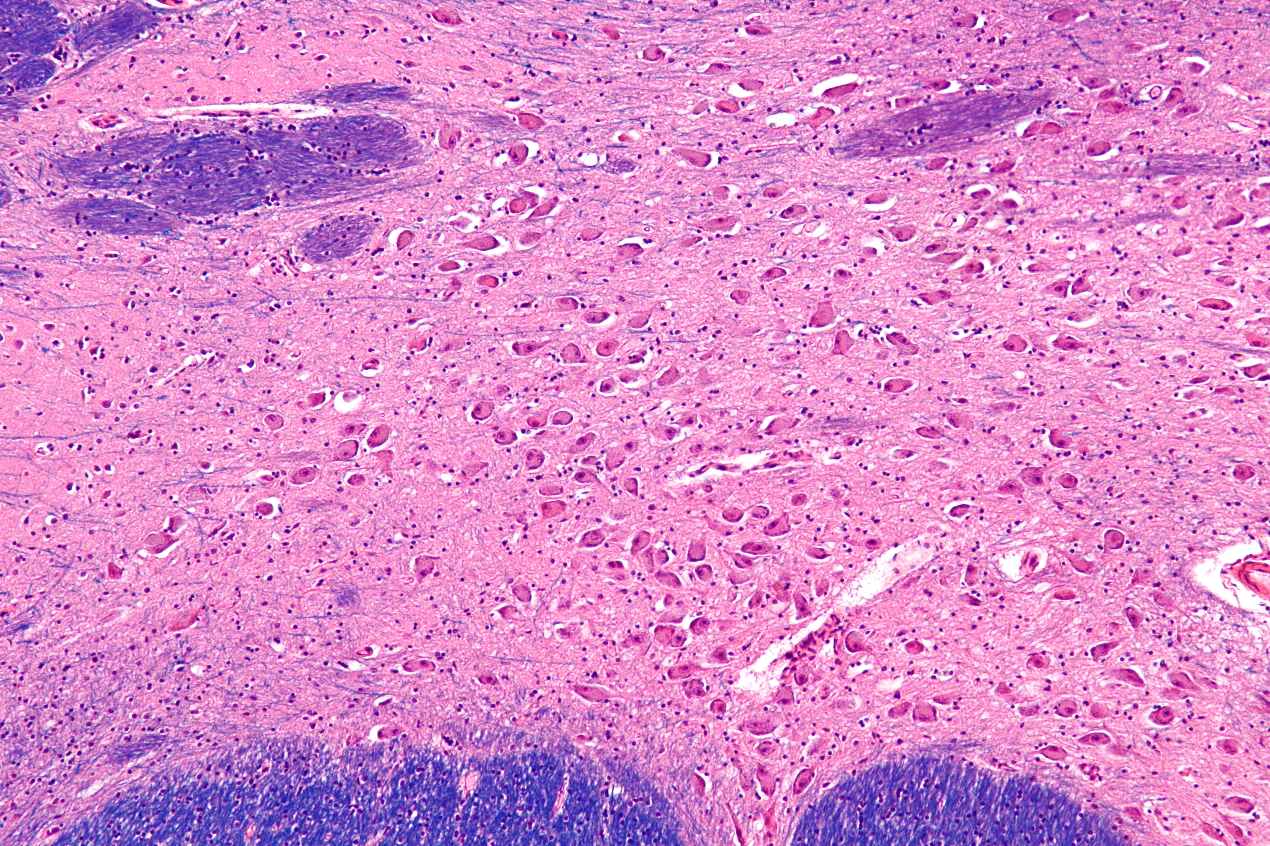 Intermediate magnification micrograph or the nucleus basalis of Meynert, also nucleus basalis. LFB-HE stain. The very low and low magnification section shows the putamen (top-left) and globus pallidus (top-right). See also Substantia innominata. Related images Very low mag. Very low mag. Low mag. Intermed. mag. High mag. Very high mag.